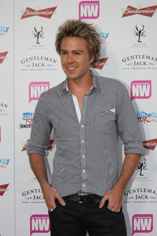 Stevie Nicholson at the Underbelly Razor DVD Launch Party in East Village, Surry Hills.